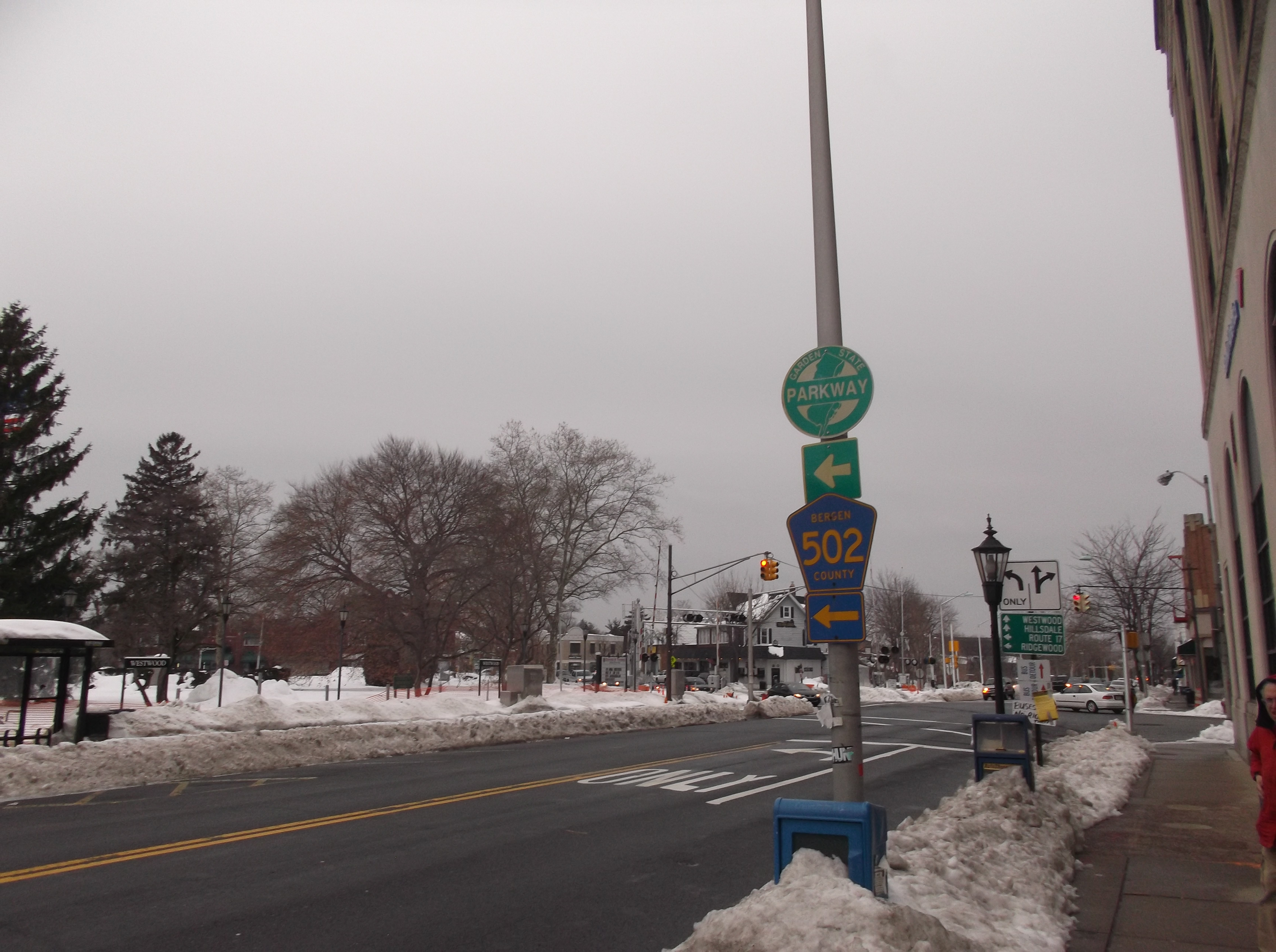 County Route 502 westbound at a turn in Westwood, New Jersey.